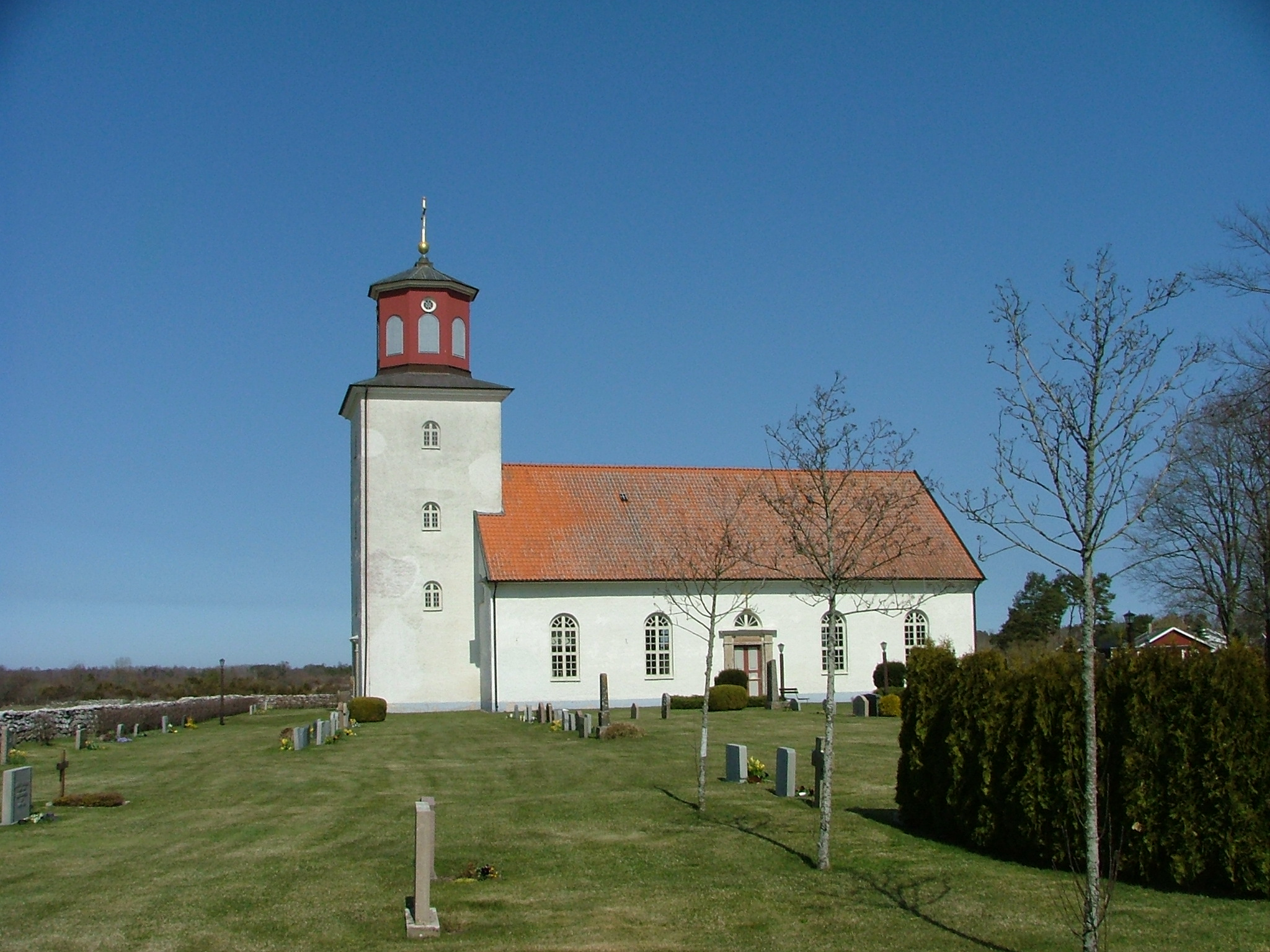 Gårdby Church. Exterior